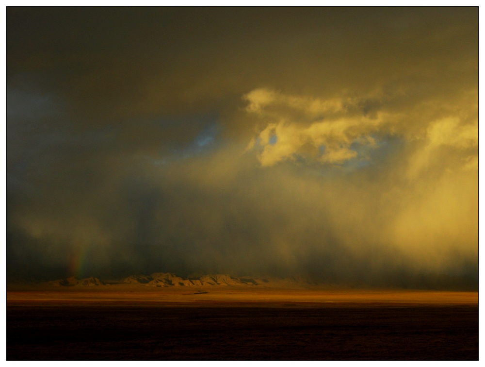 Altyn Tagh, a mountain range at the northern brink of Tibetan Plateau. 中文（中国大陆）: 青藏高原北缘的阿尔金山脉。